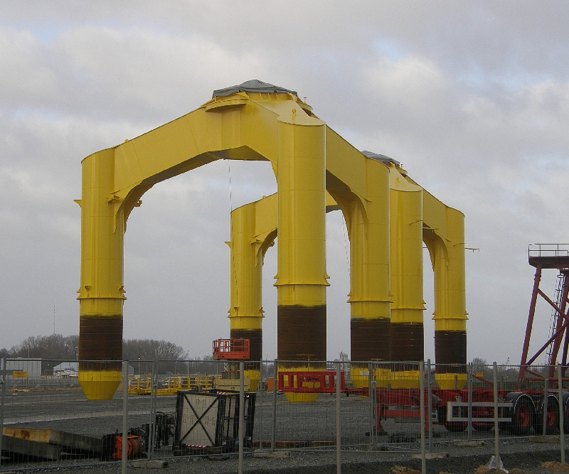 Two tripods for offshore wind turbines seen in the port of Cuxhaven, Germany